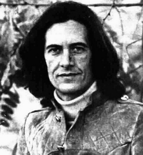 Italian singer Tony Cucchiara